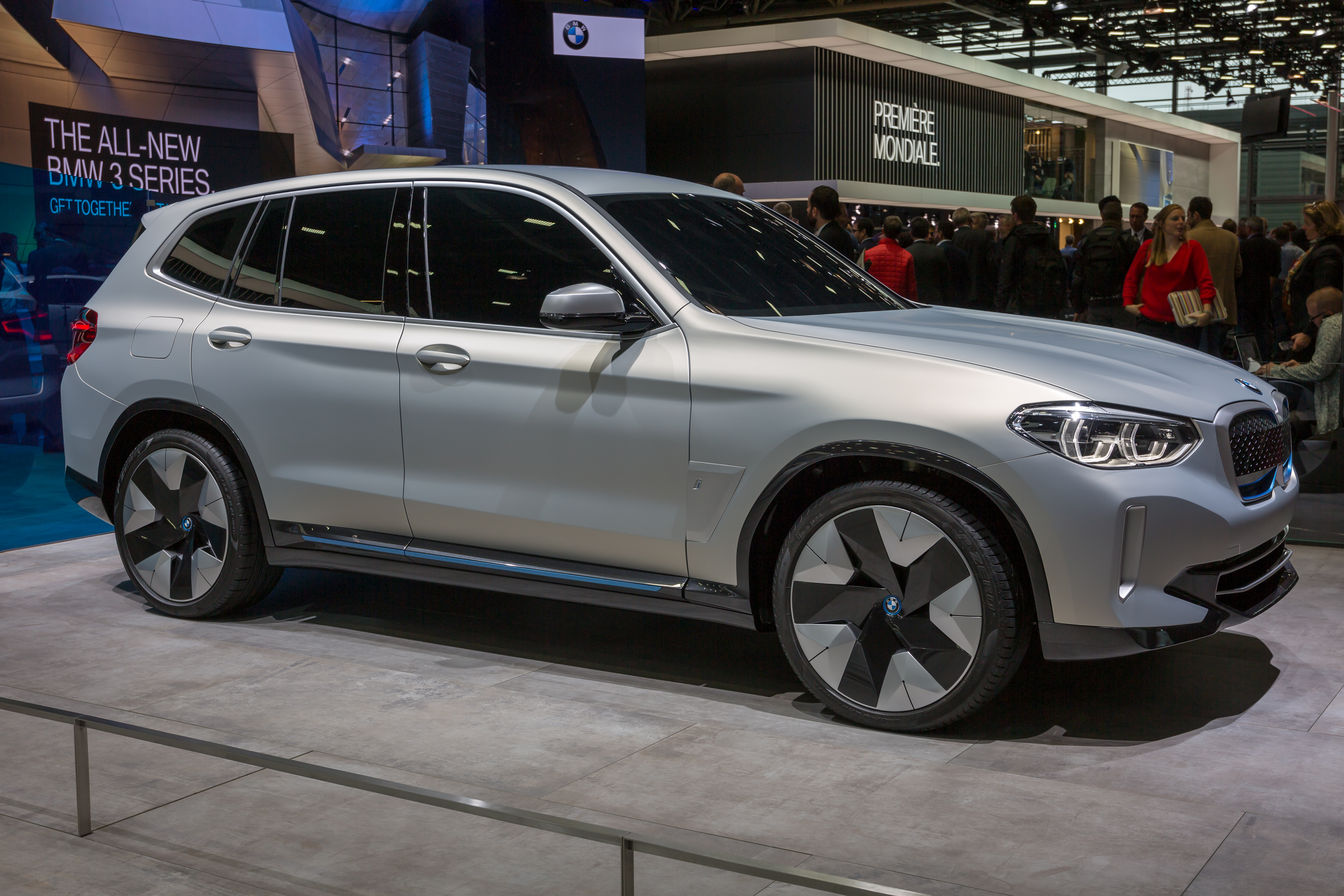 BMW iX3, Paris Motor Show 2018